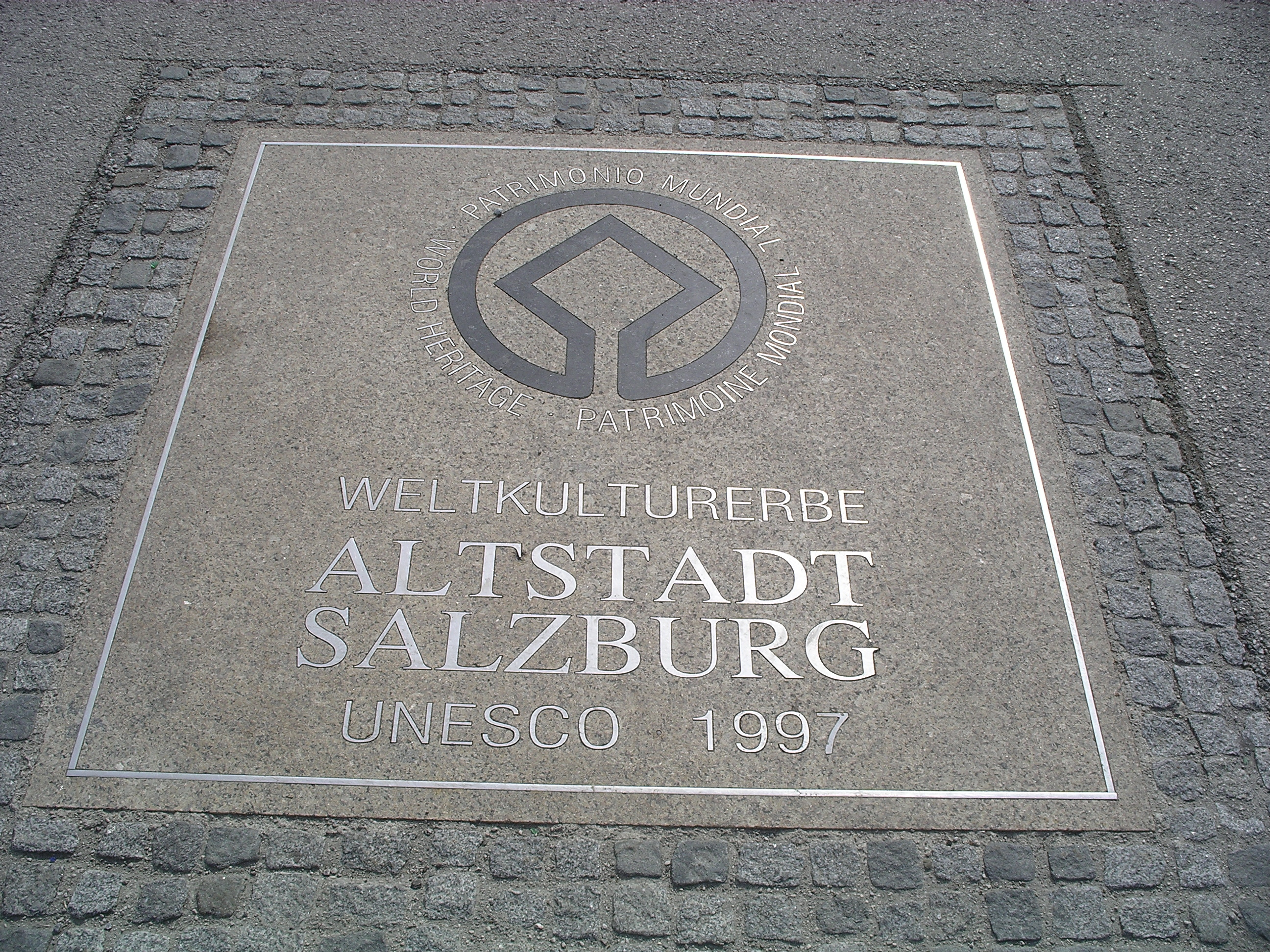 The UNESCO World Heritage Logo for the Old Town of Salzburg, Austria